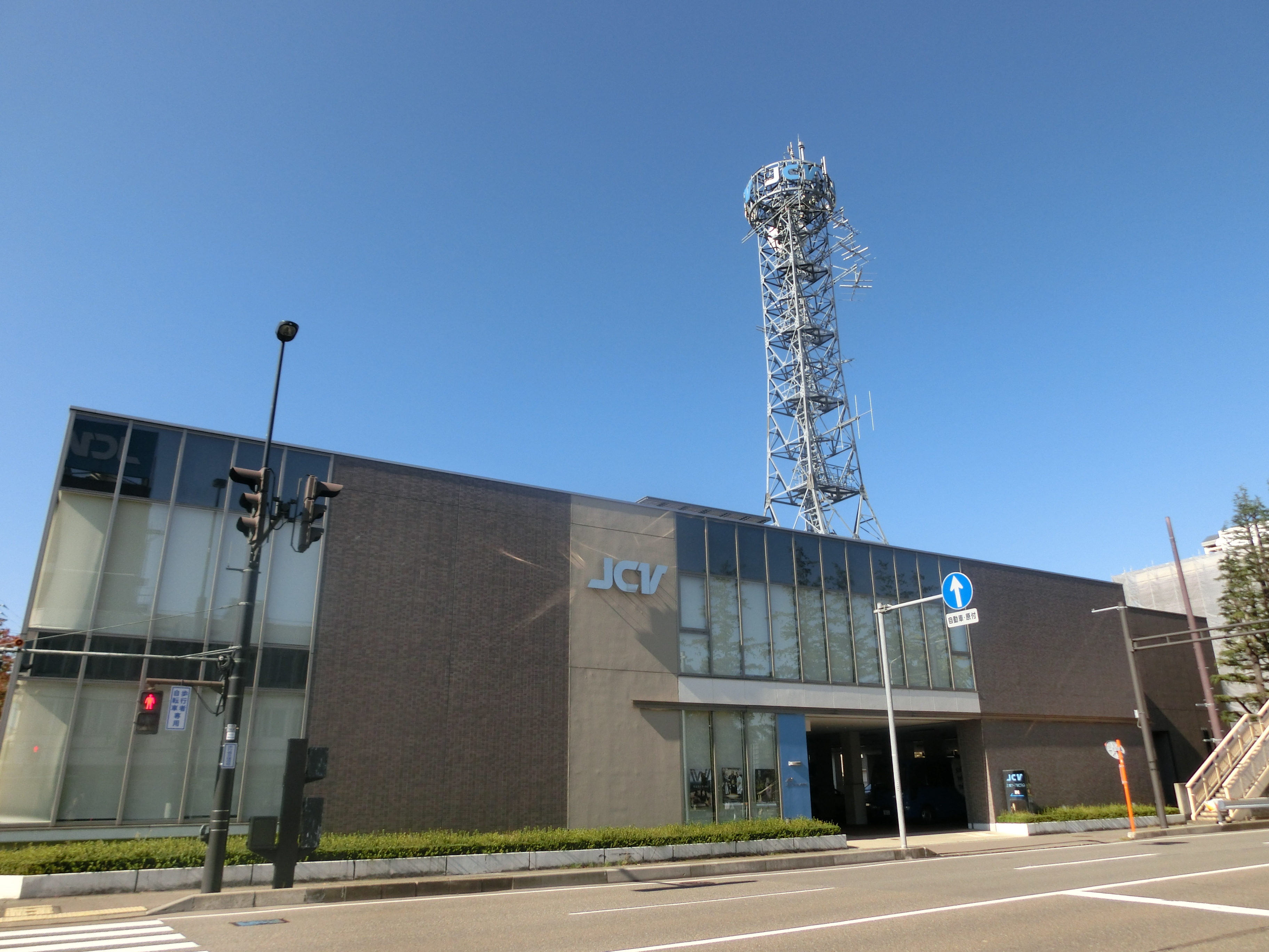 Joetsu Cable Vision Head Office